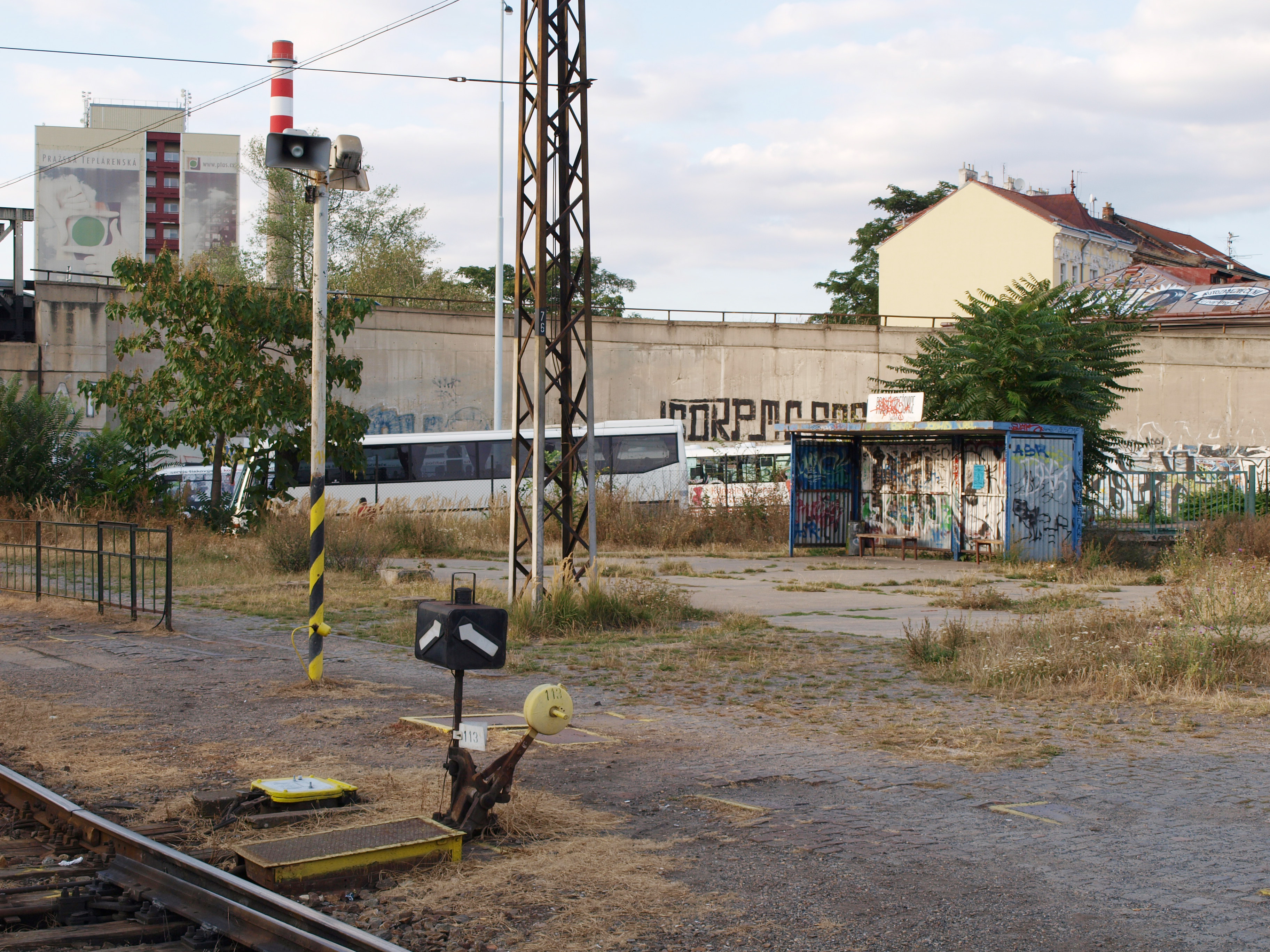 Train stop Praha-Holešovice, Holešovice, Prague